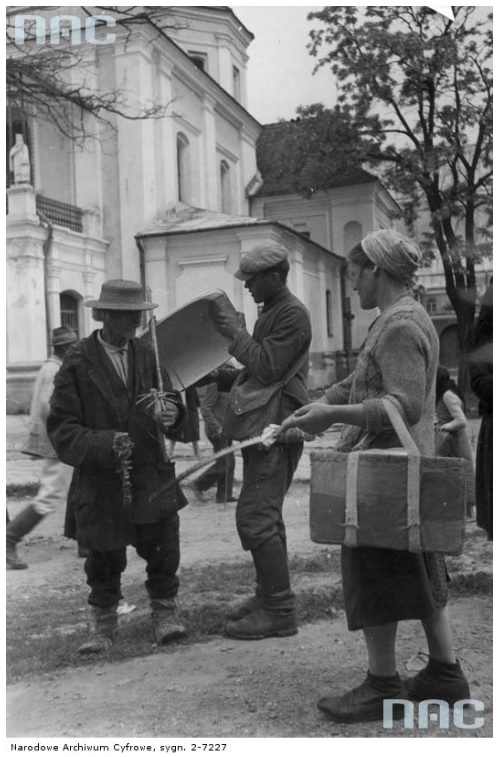 Sambir, June 1942. Occupied Second Polish Republic, now Ukraine. Street barter; with church in the background.